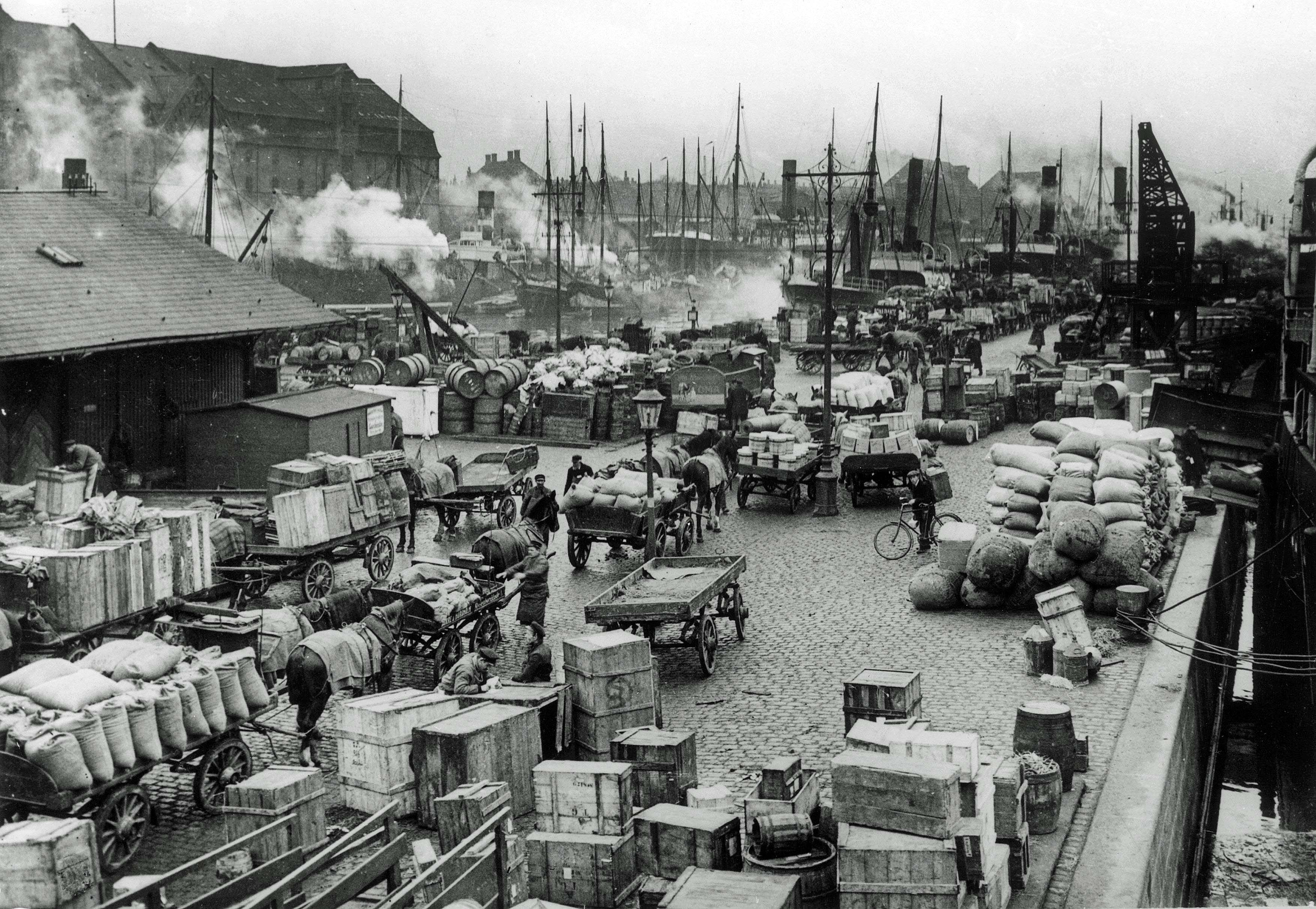 This shows the old view of habour of Copenhagen.